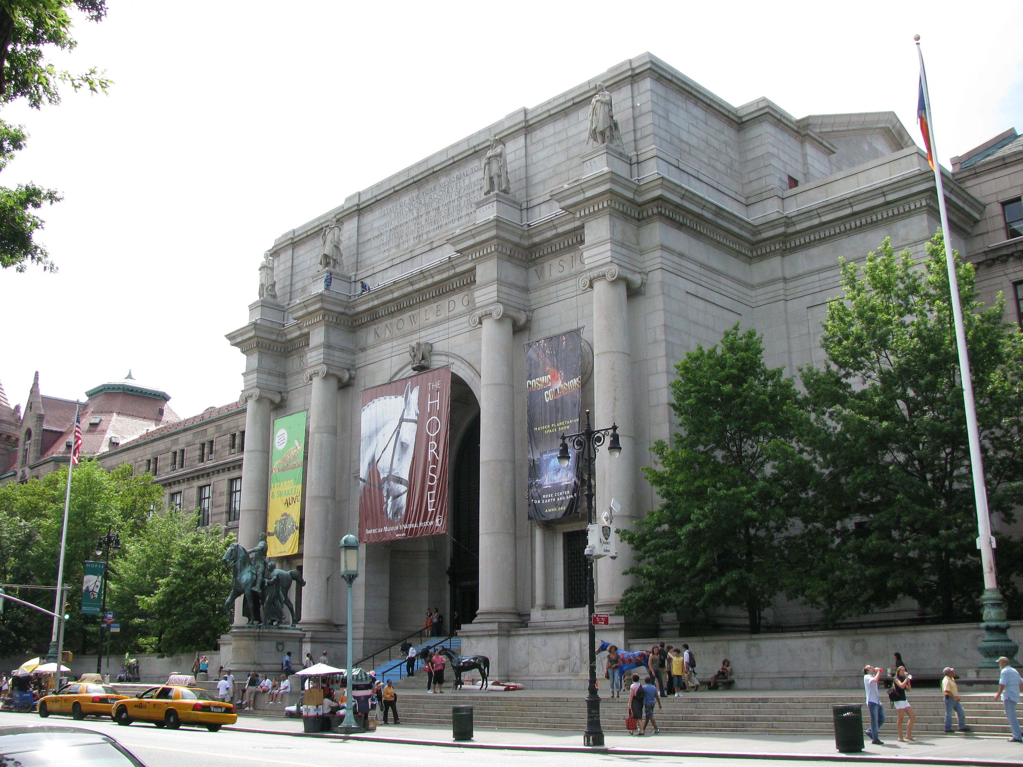 Front view of the American Museum of Natural History